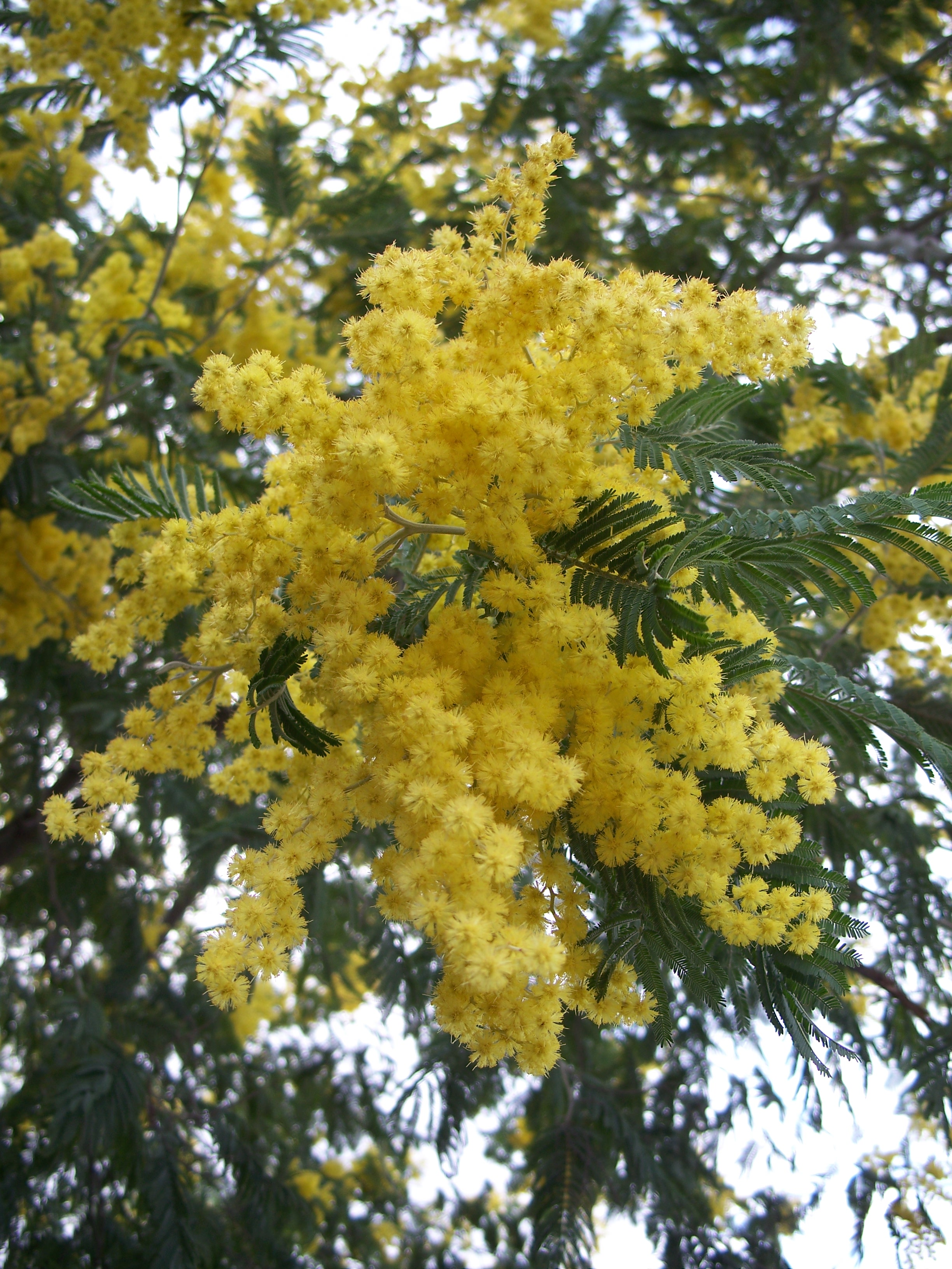 Mimosa, Silver Wattle